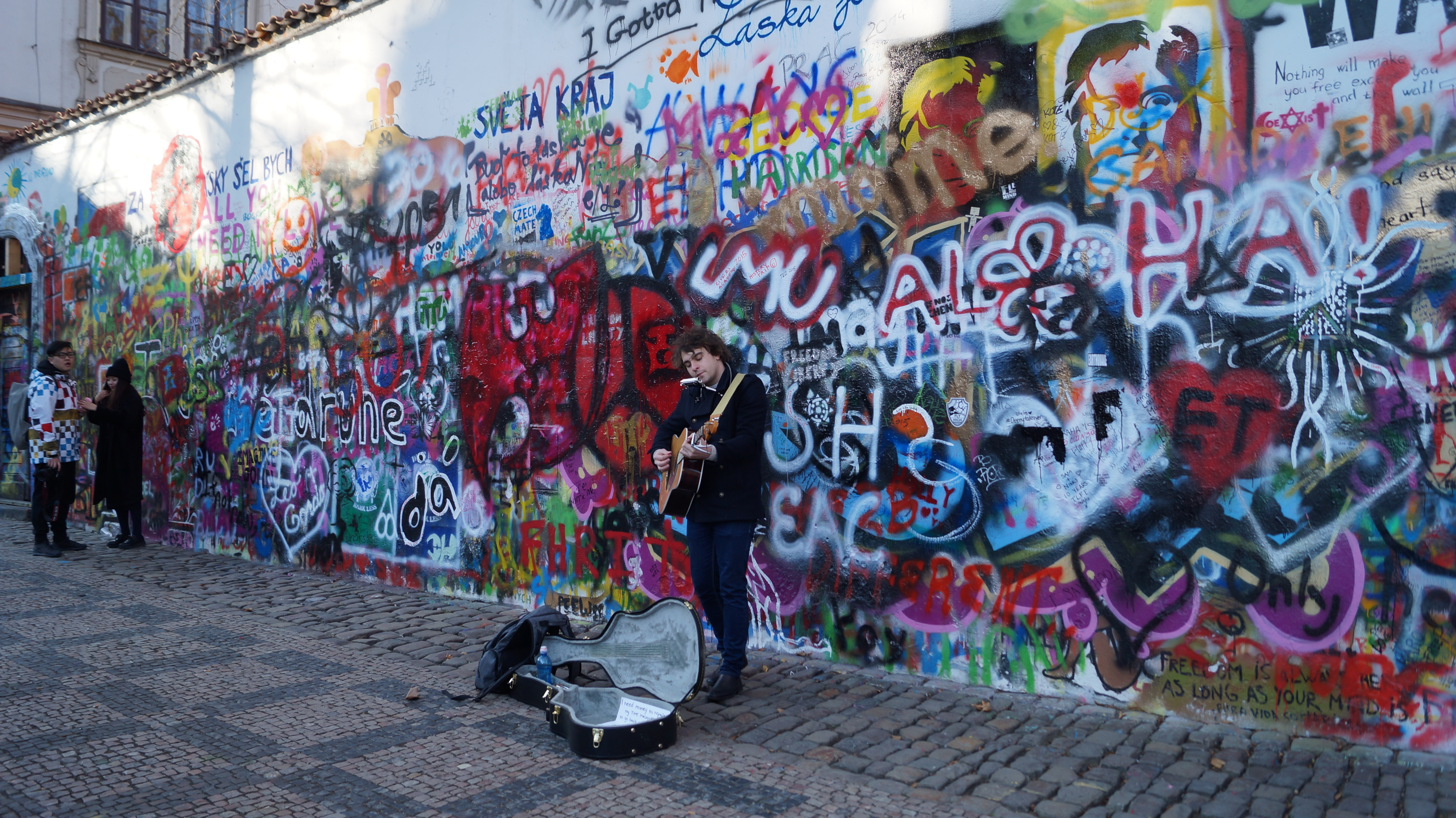 Photo by: World Wide Wilson